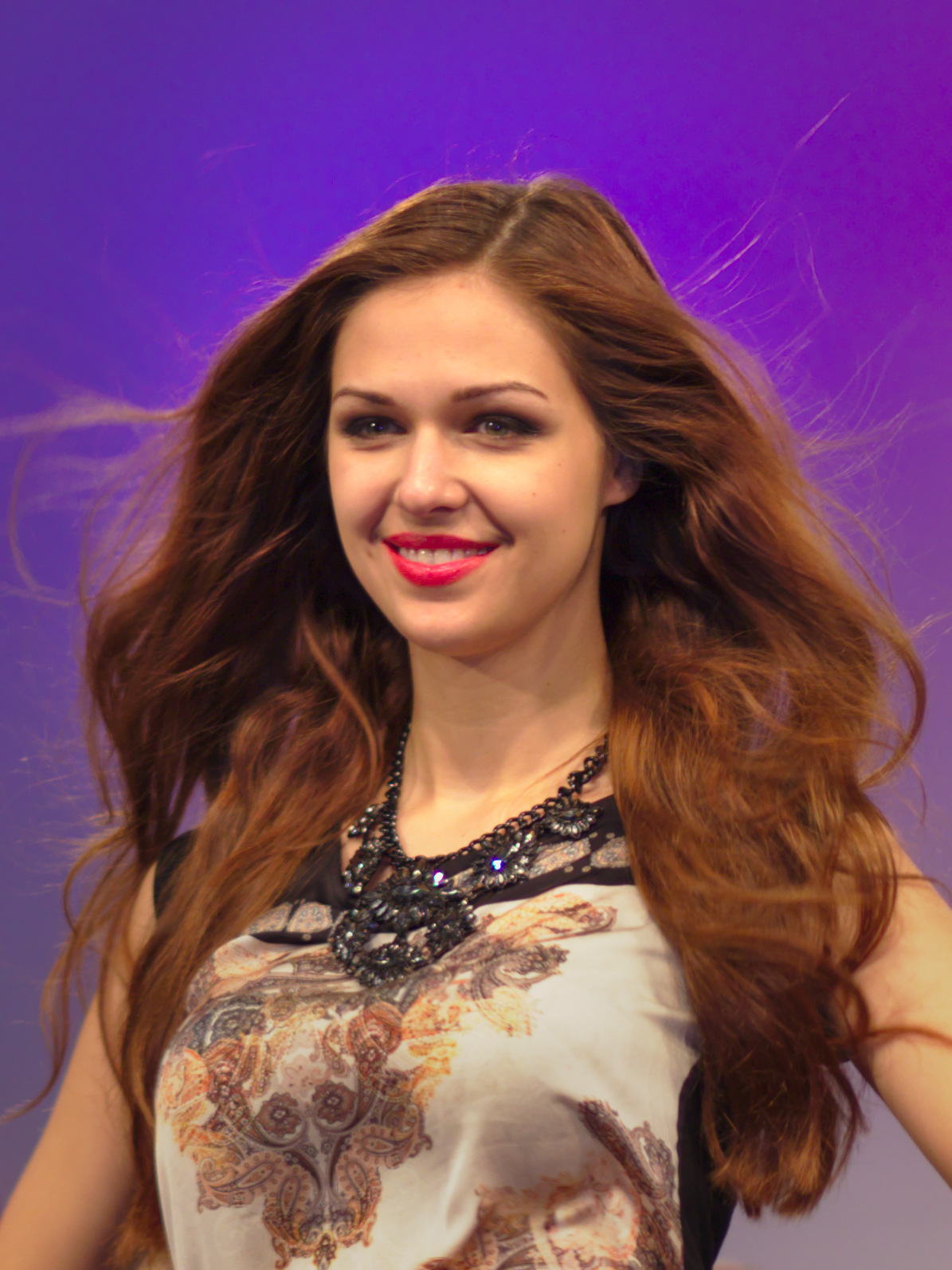 Lucie Kovandová at Olympia Fashion Show 2014 (Brno)